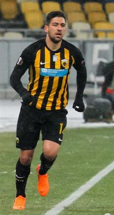 Anastasios Bakasetas, Tomasz Kędziora